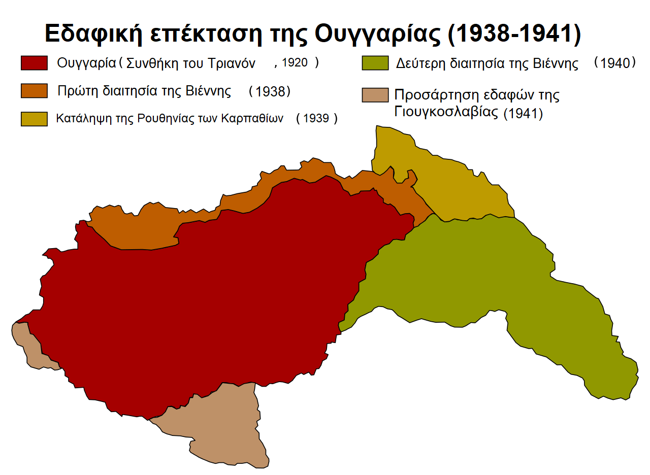 Teritorial gains by Hungary durring WW2 (English)